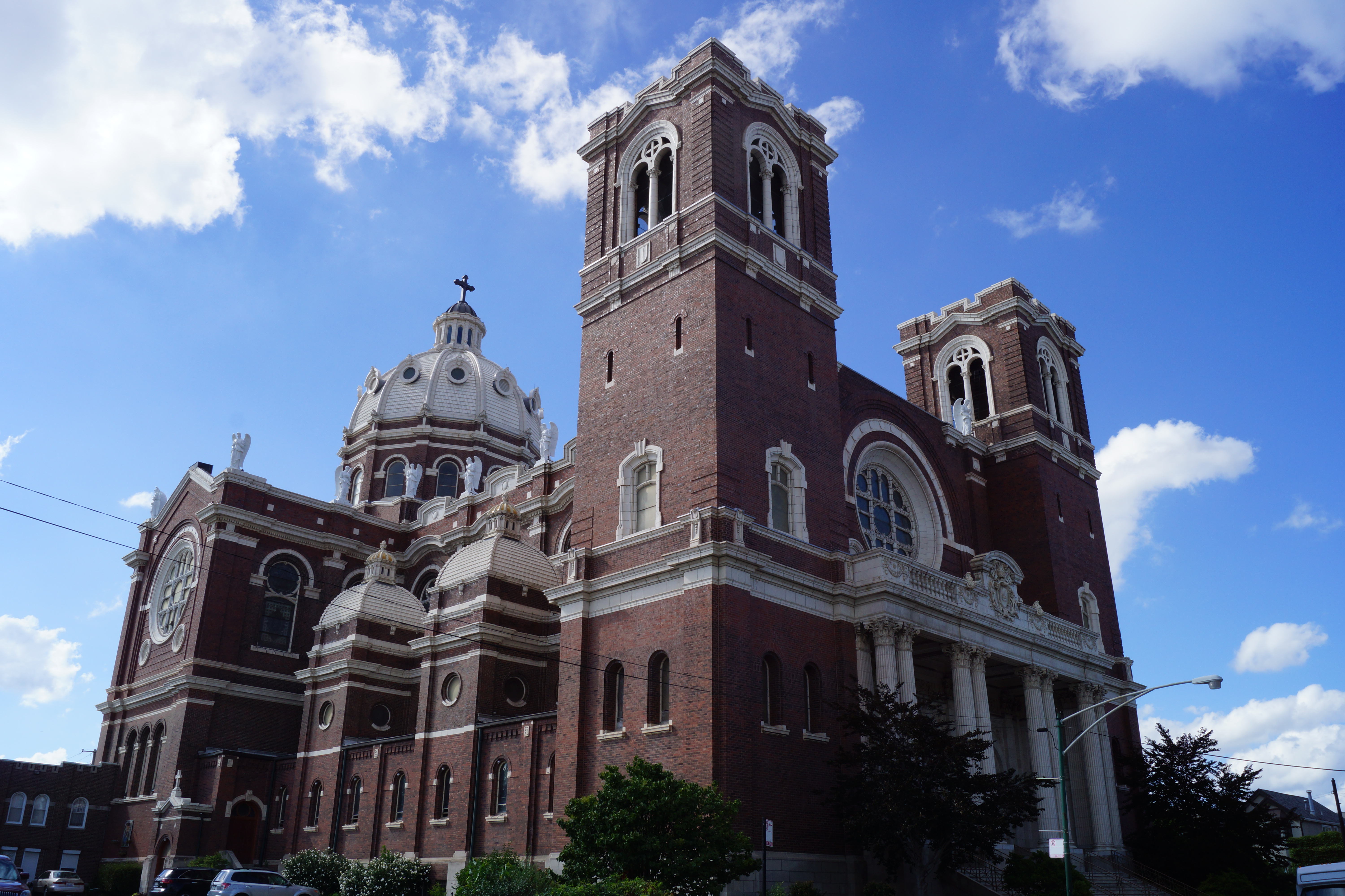 Exterior of St. Mary of the Angels Church, Chicago, IL